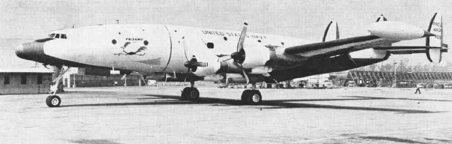 A U.S. Navy Lockheed NC-121K Willy Victor (BuNo 145925) at Naval Air Station Patuxent River, Maryland (USA). This aircraft was converted to an NC-121K from an EC-121K in September 1962, and transferred to the Oceanographic Air Survey Unit Aircraft at NAS Patuxent River. It was named "Paisano Dos" (the second friend) and finally retired on 15 May 1973.